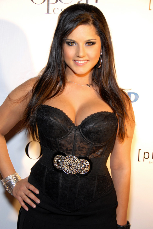 Sunny Leone attending the VIVID Entertainment's 25th Anniversary Celebration at Opera/Crimson, Hollywood, CA on March 7, 2009 - Photo by Glenn Francis of